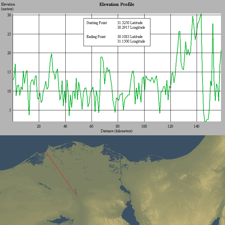 The Theran Eruption: The image shows that tsunami waves caused by Thera's eruption in 1626 BC could have easily penetrated far into the Nile delta region due to its very low elevation